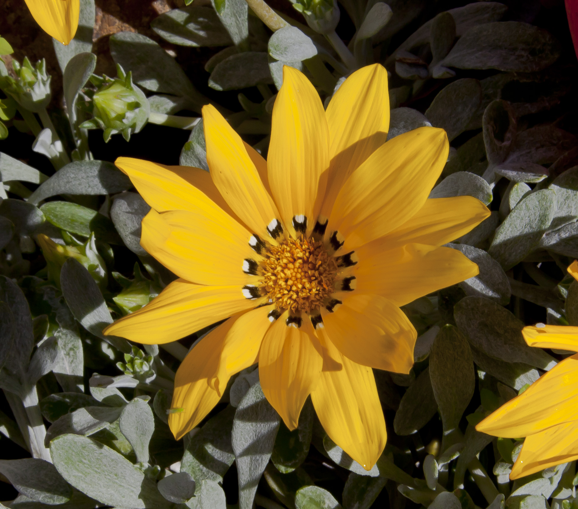 Gazania (Gazania rigens), mill garden, Sierra of Saint Philip, Setubal, Portugal